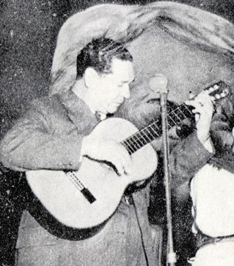 Emilio Chamorro. 1950. Argentina. Chamamé